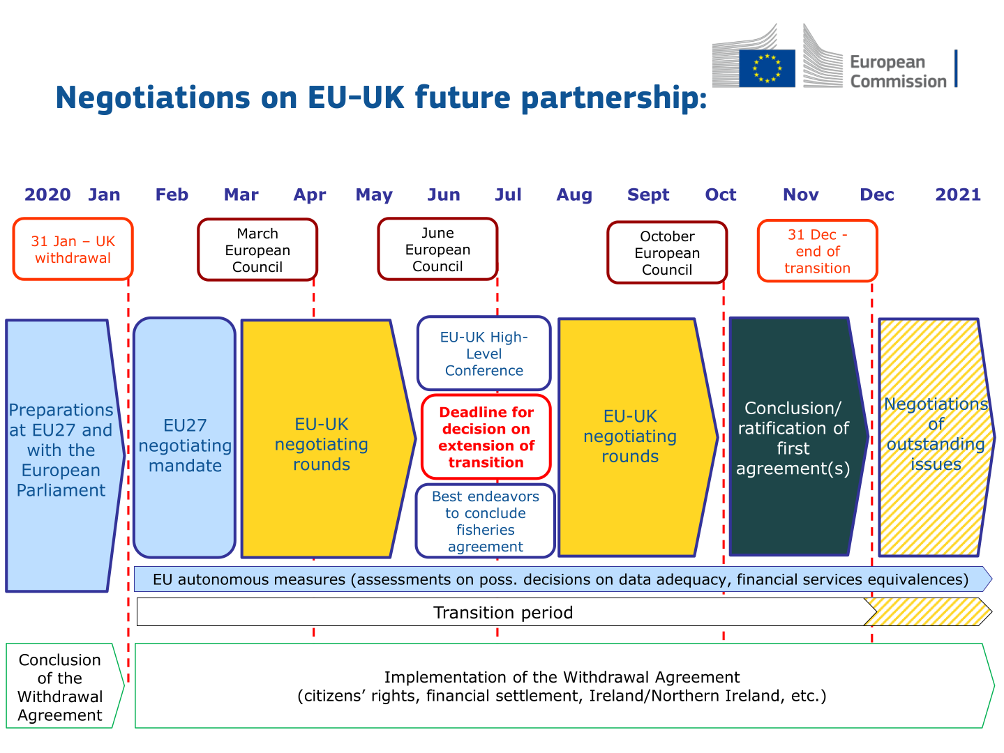 Page 2 of 2 in Slides used by M. Barnier on occasion of the presentation of the Commission's proposal for a Council recommendation on directives for the negotiation of a new partnership with the UK Presented to the European Council on 3 February 2020.